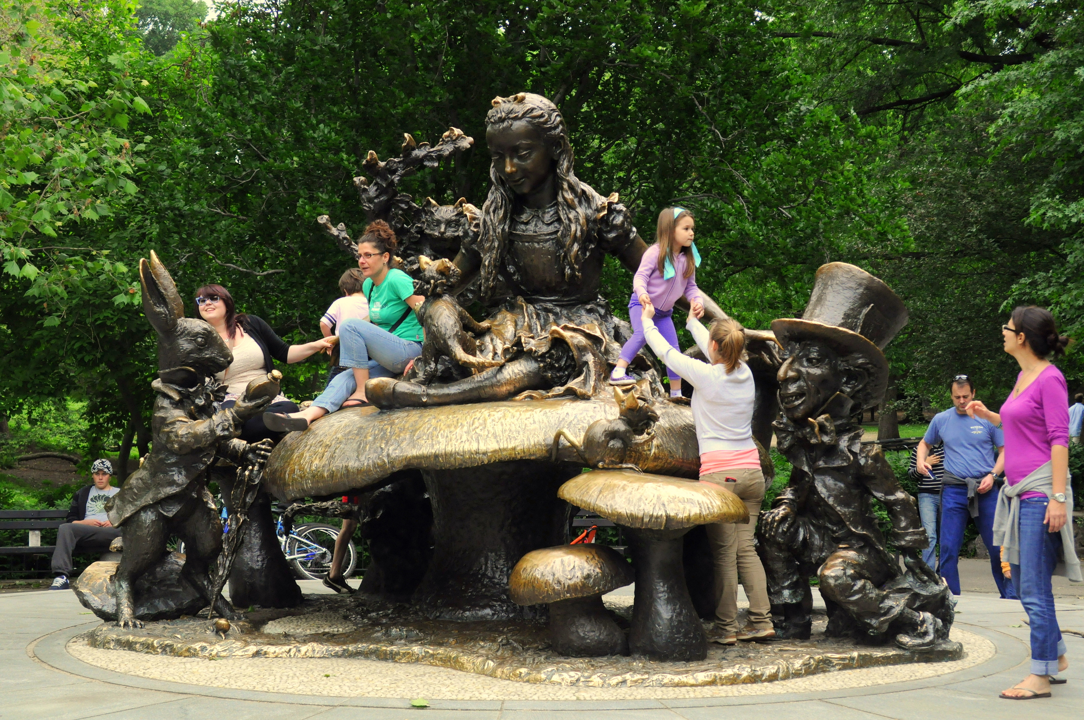 Children play on Jose de Creeft's sculpture 'Alice in Wonderland' in Central Park, New York. Alice in Wonderland's mushroom theme is thought to be based on the psychedelic effects of the consumption of Amanita Muscaria, the 'fly agaric' mushroom.